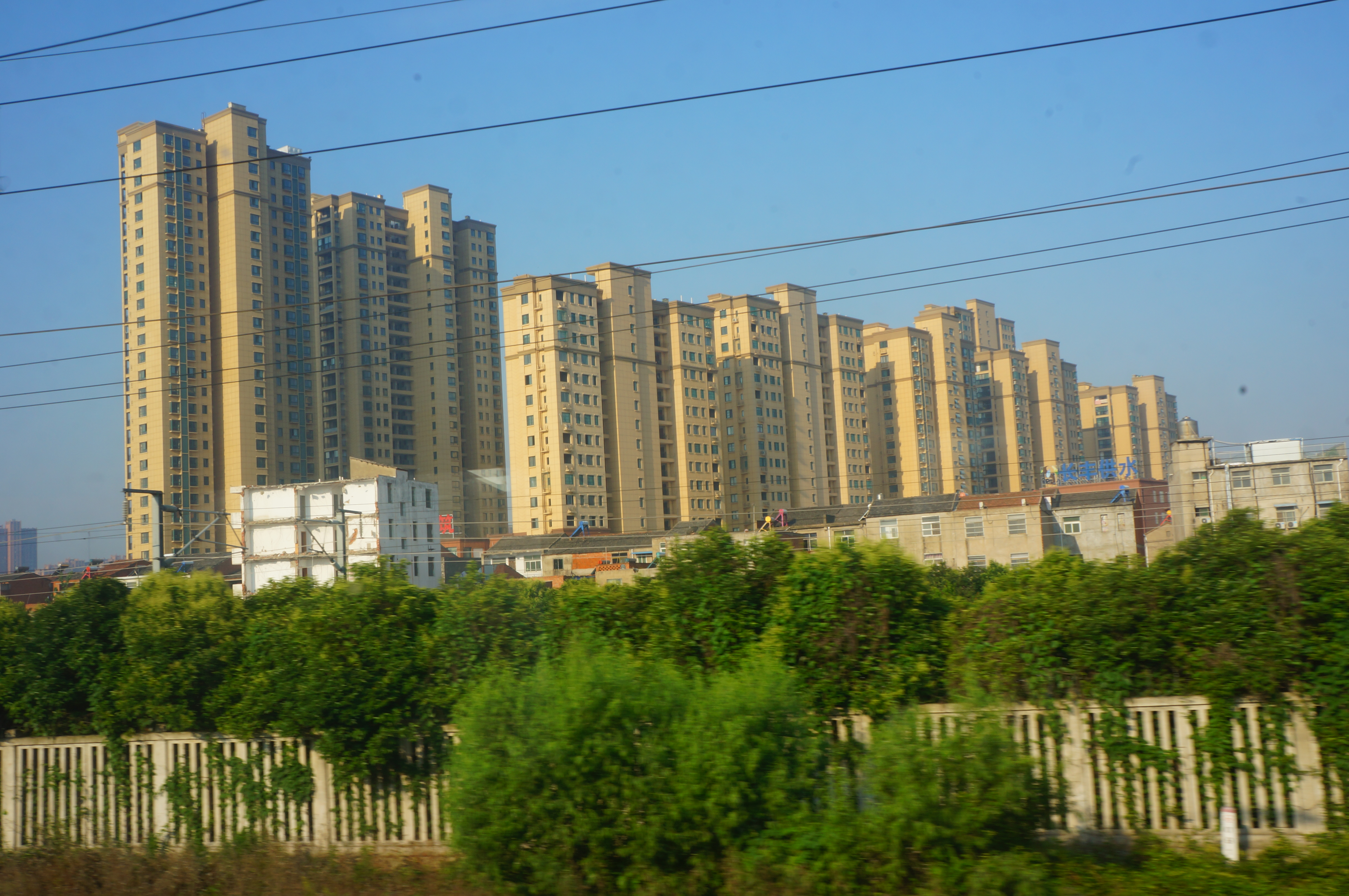 201705 Shuijiahu Station's vicinity